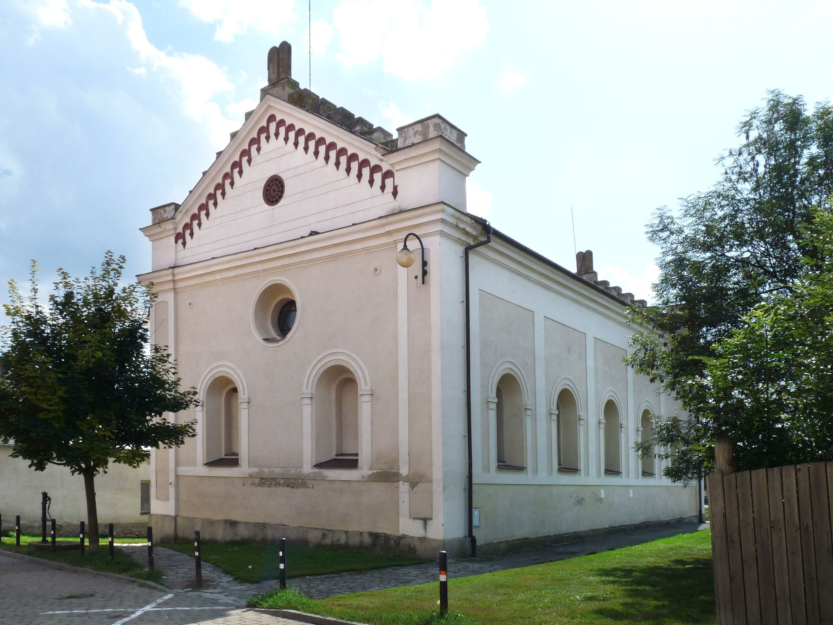 Former synagogue in the town of Slavkov u Brna, Vyškov District, Czech Republic as seen from Úzká Street.